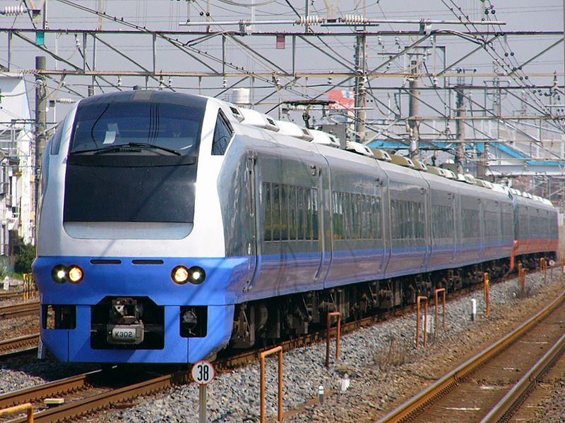 JR East E653 series set K302